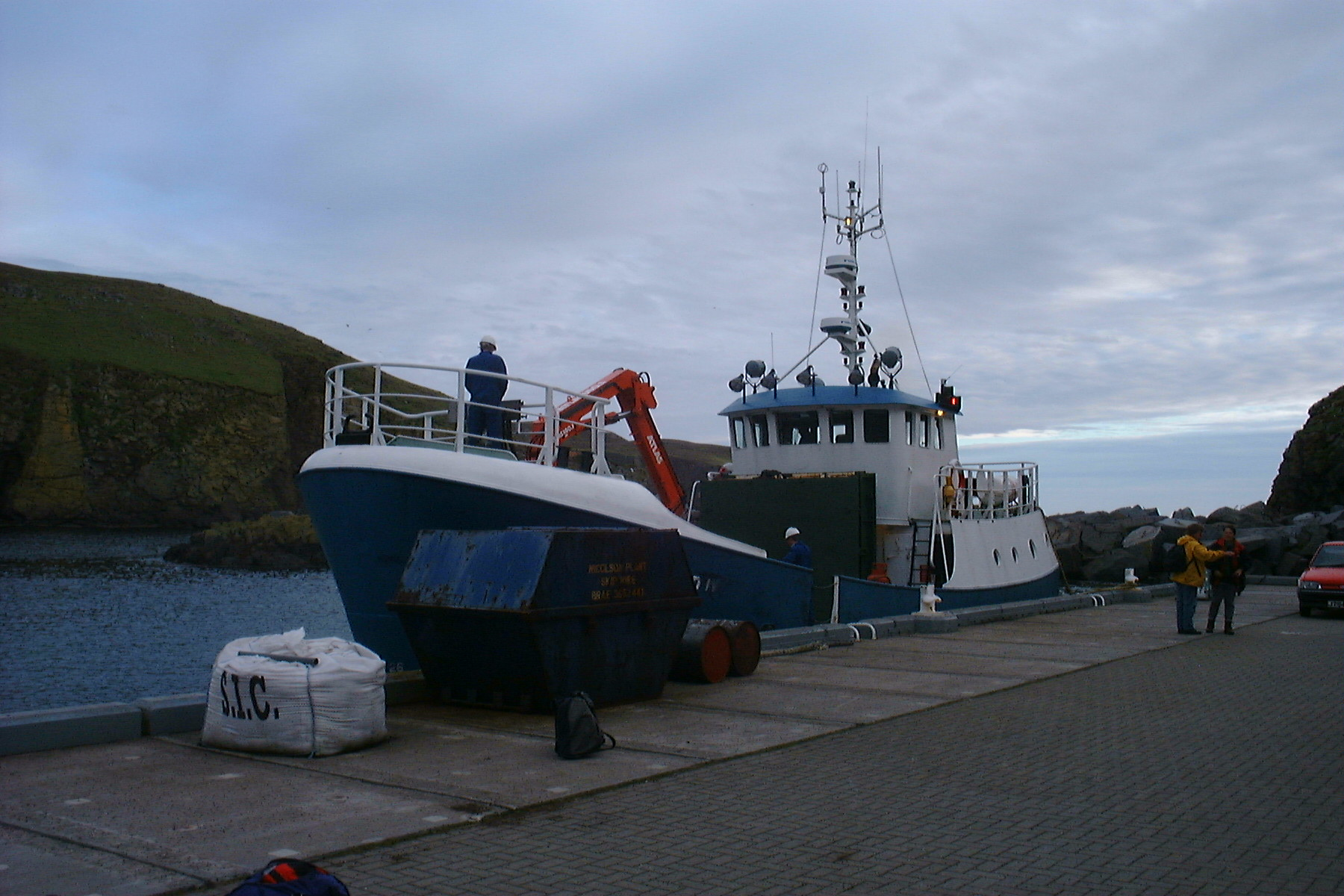 Shetland Island Council Ferry Good Shepherd IV, the ferry which connects Fair Isle with Sumburgh on the Shetland mainland. The ferry was built in 1986 by Millers, St Monance.